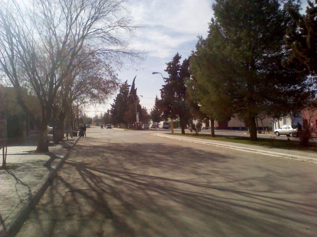 Cervantes city in Río Negro province, Argentina.